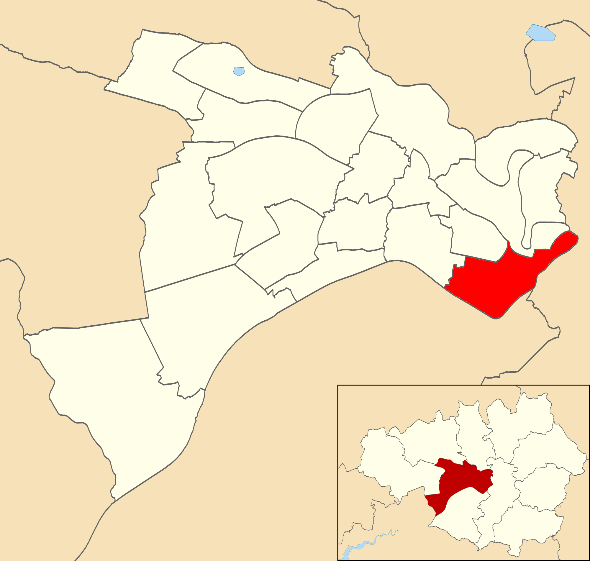 Map showing location of Ordsall ward within Salford City Council.